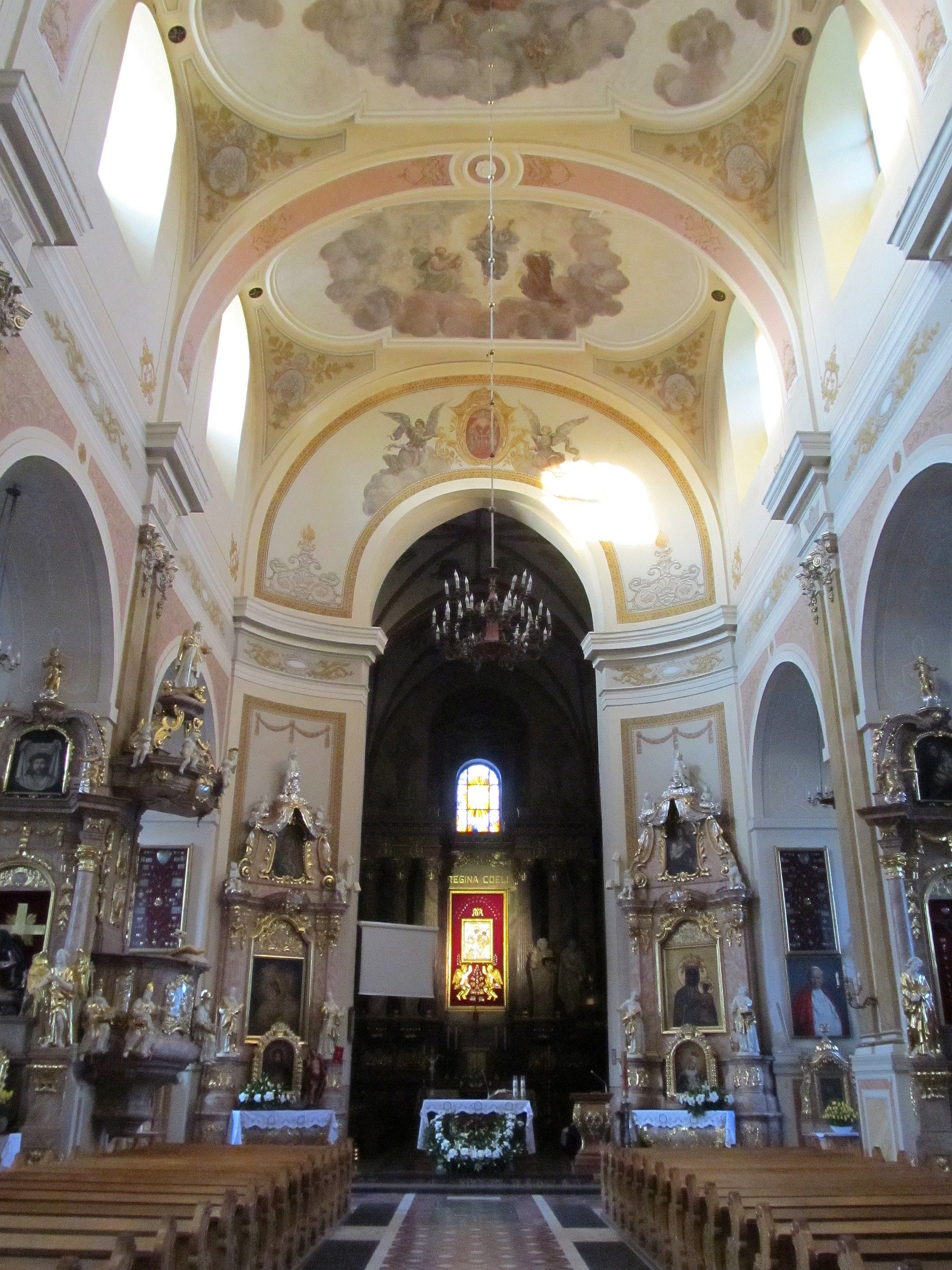 Church of the Assumption in Kalisz